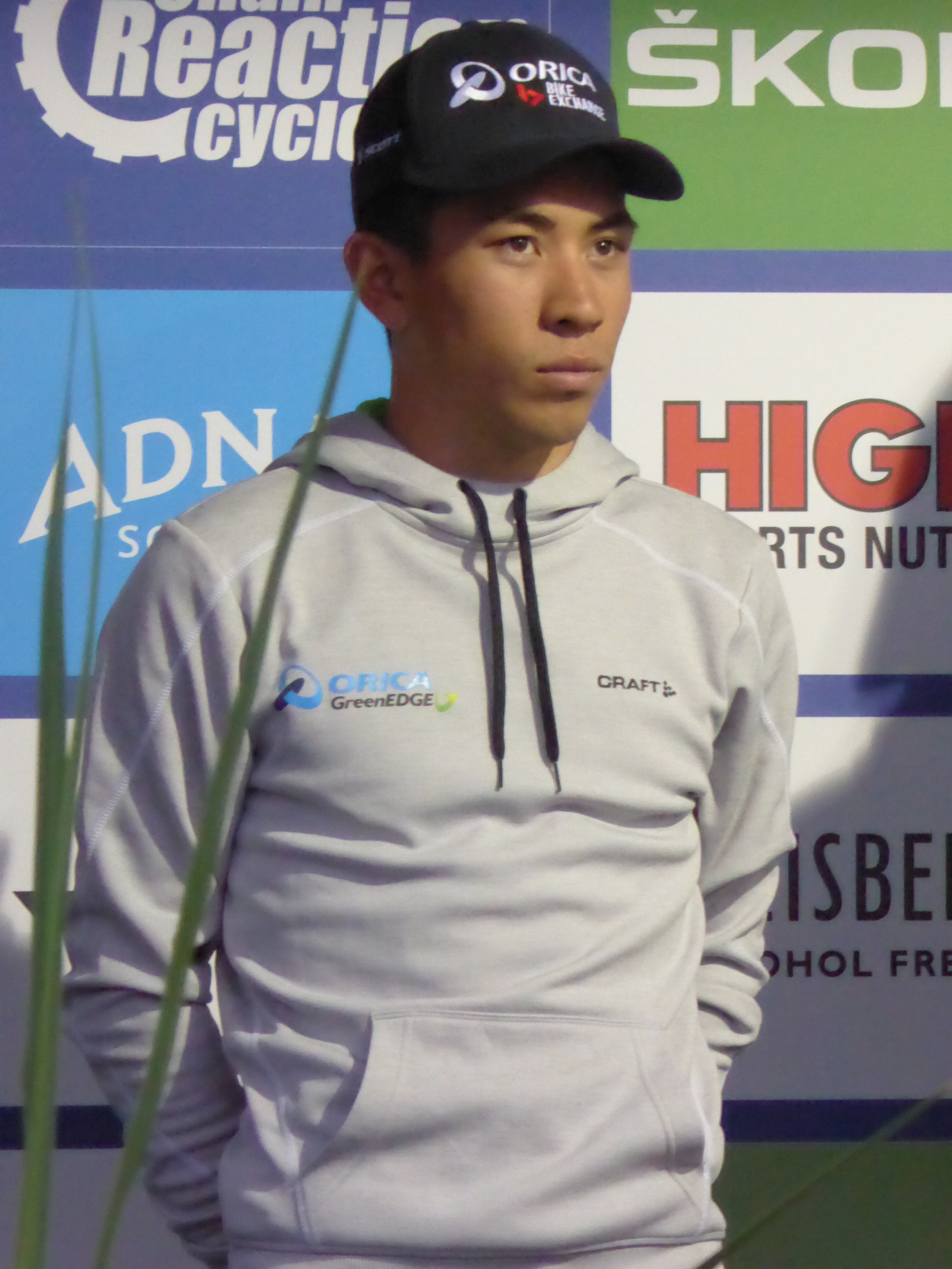 Caleb Ewan (Orica-BikeExchange), pictured at the 2016 Tour of Britain team presentation in Glasgow on 3 September 2016.